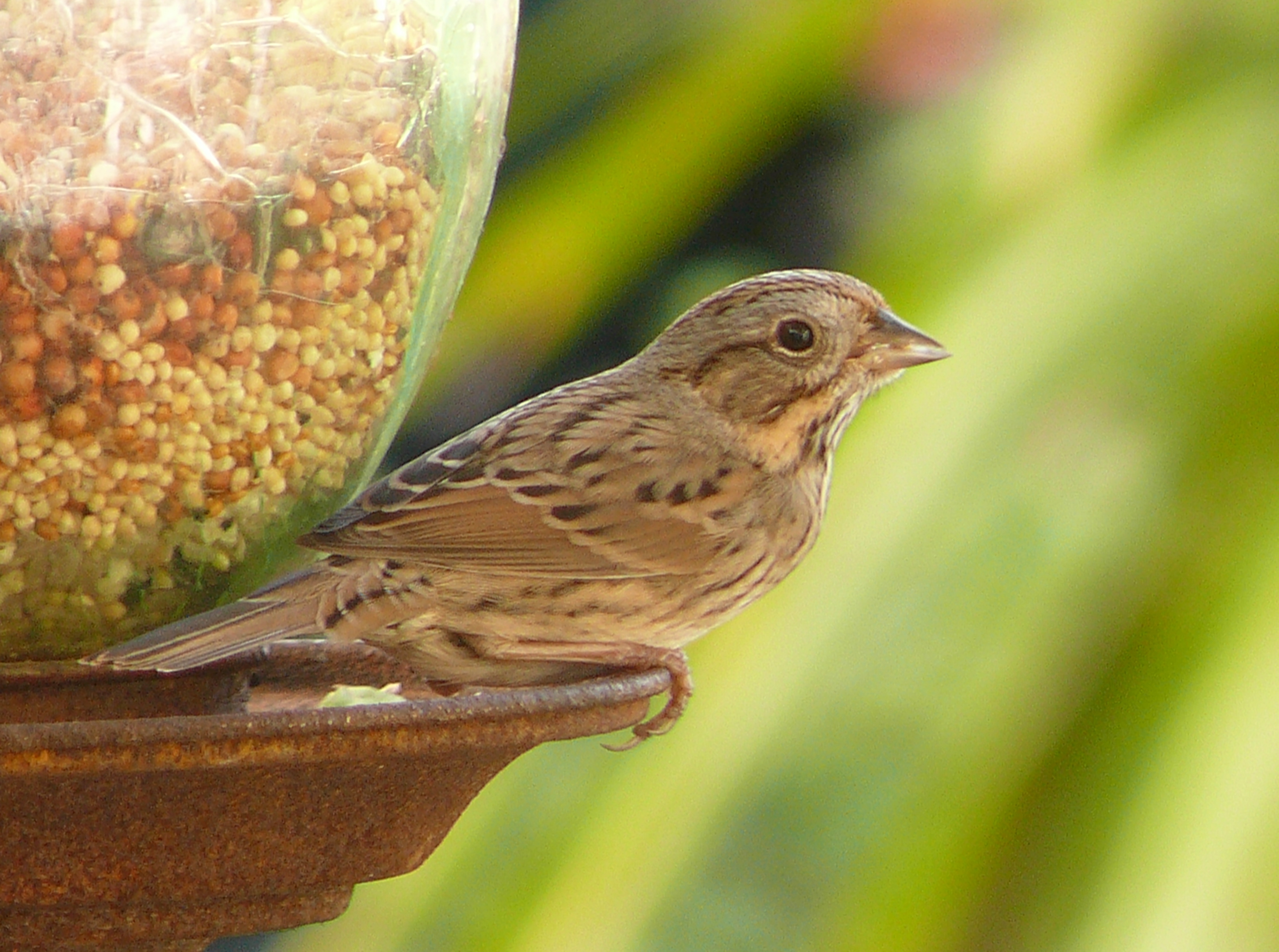 Lincoln's Sparrow